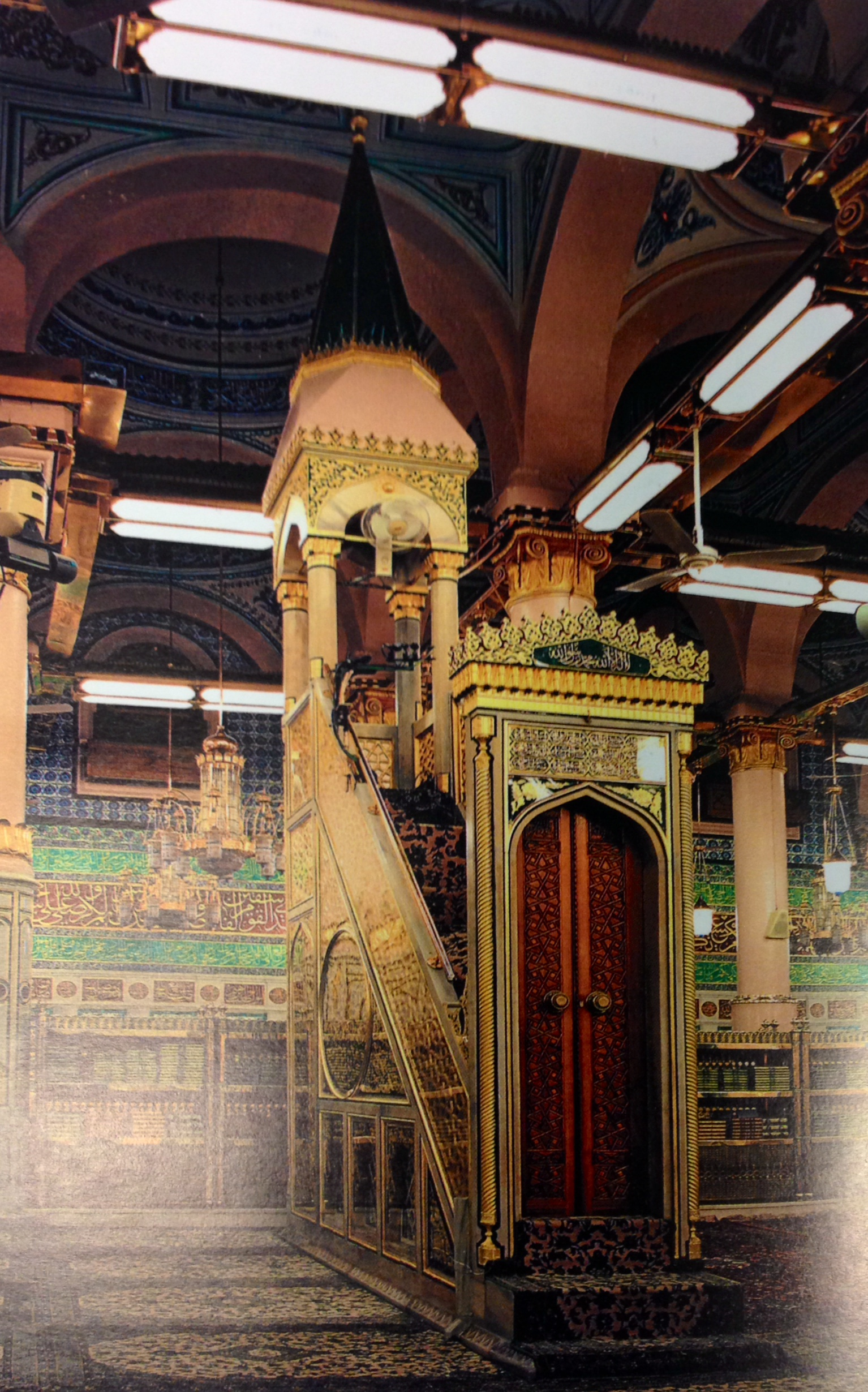 Minbar in Al-Masjid al-Nabawi, Madina